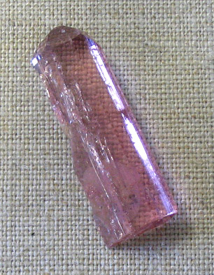 A transparent prismatic topaz crystal from the Mardan District, Pakistan. Photograph taken at the Natural History Museum, London.